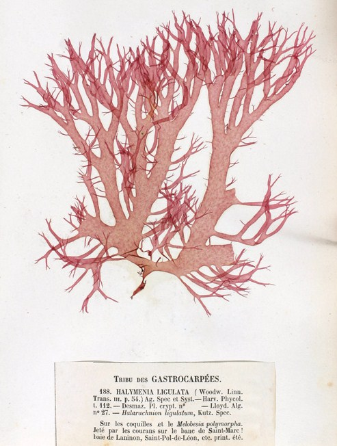 « Halymenia ligulata » = Halarachnion ligulatum